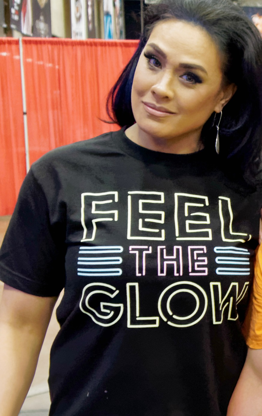 Tamina Snuka during the WrestleMania 32 Axxess in March 31, 2016.